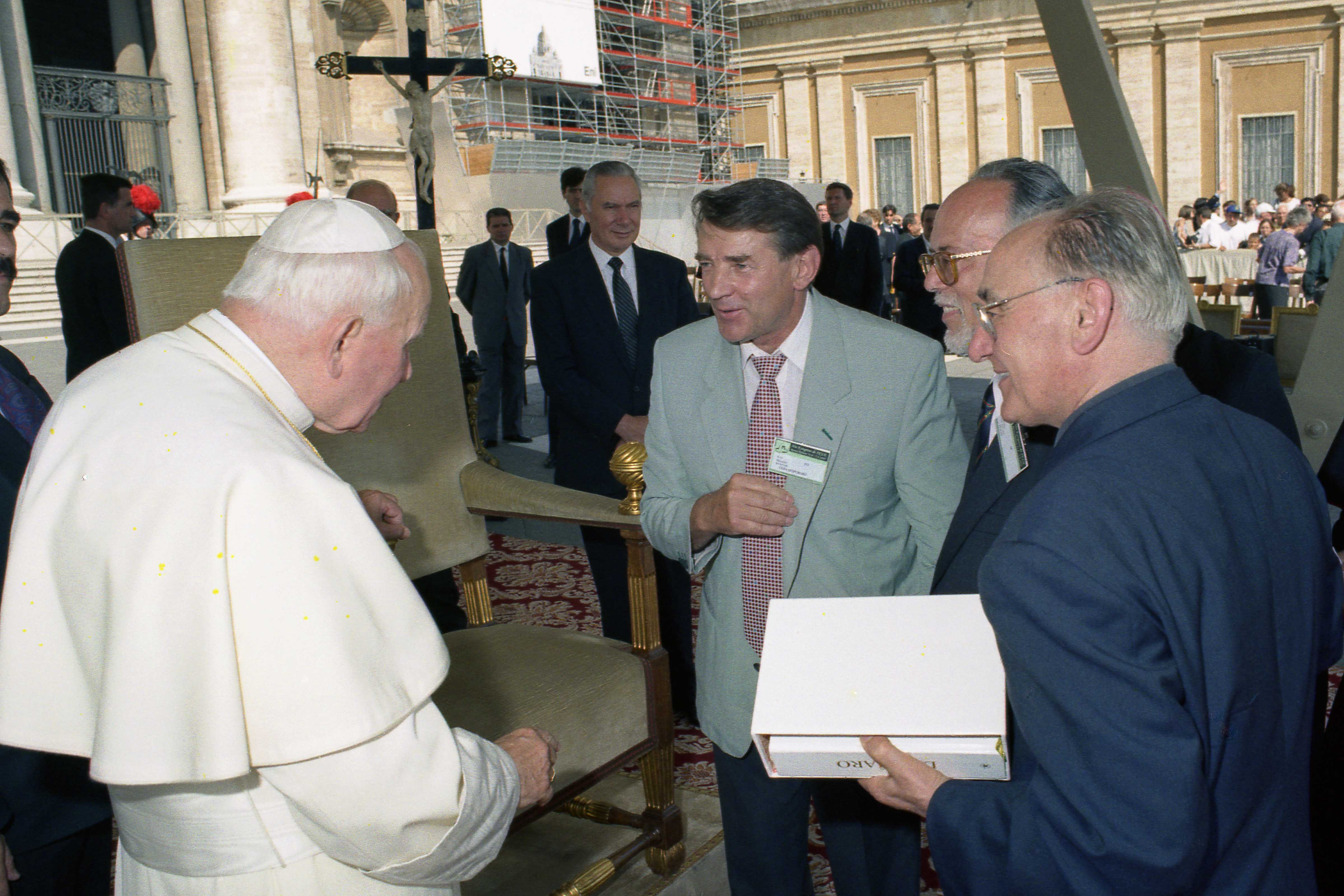 Pope John Paul II takes over the Esperanto Missal and Lectionary from IKUE.